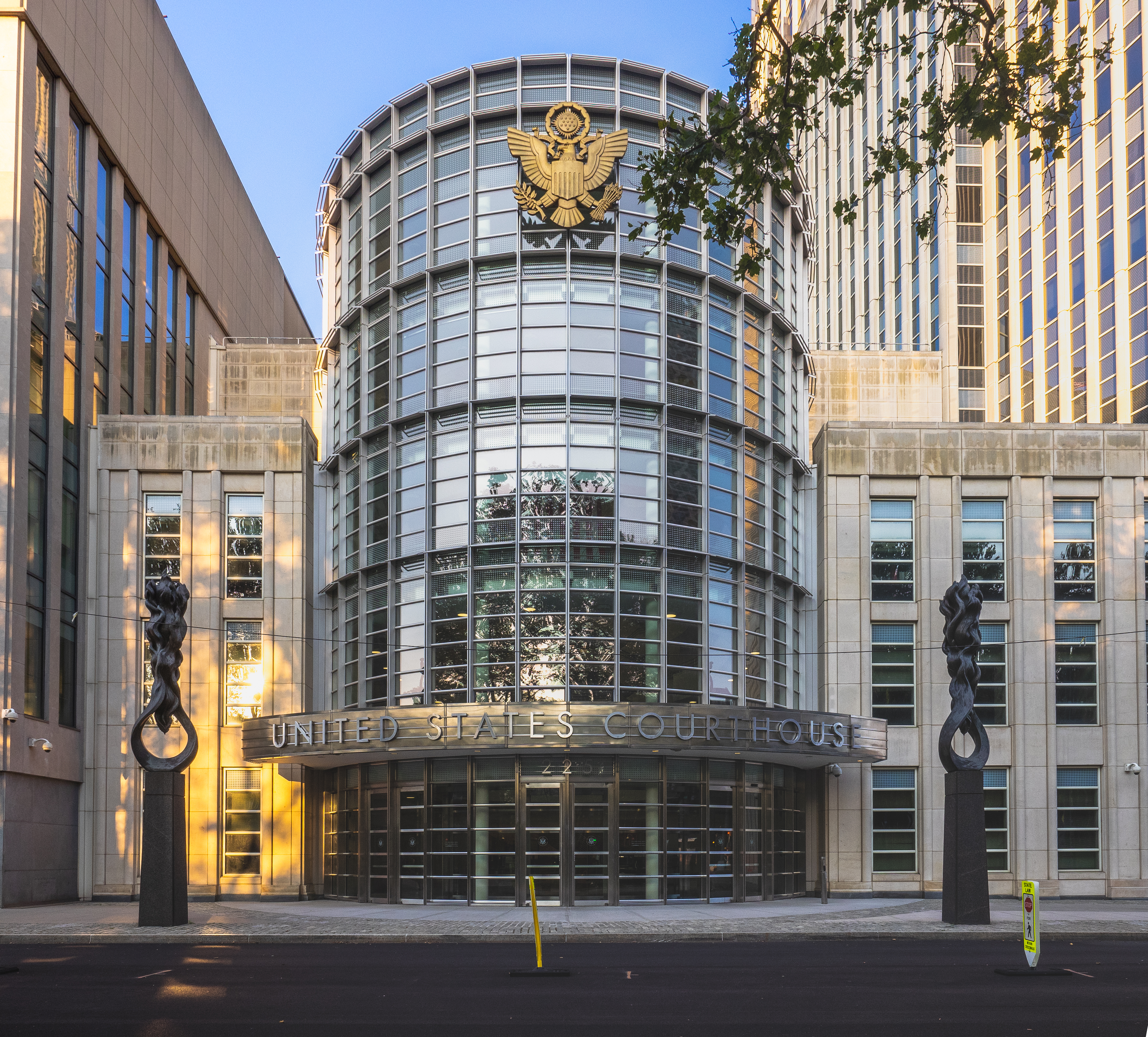 Downtown Brooklyn, Brooklyn, New York City